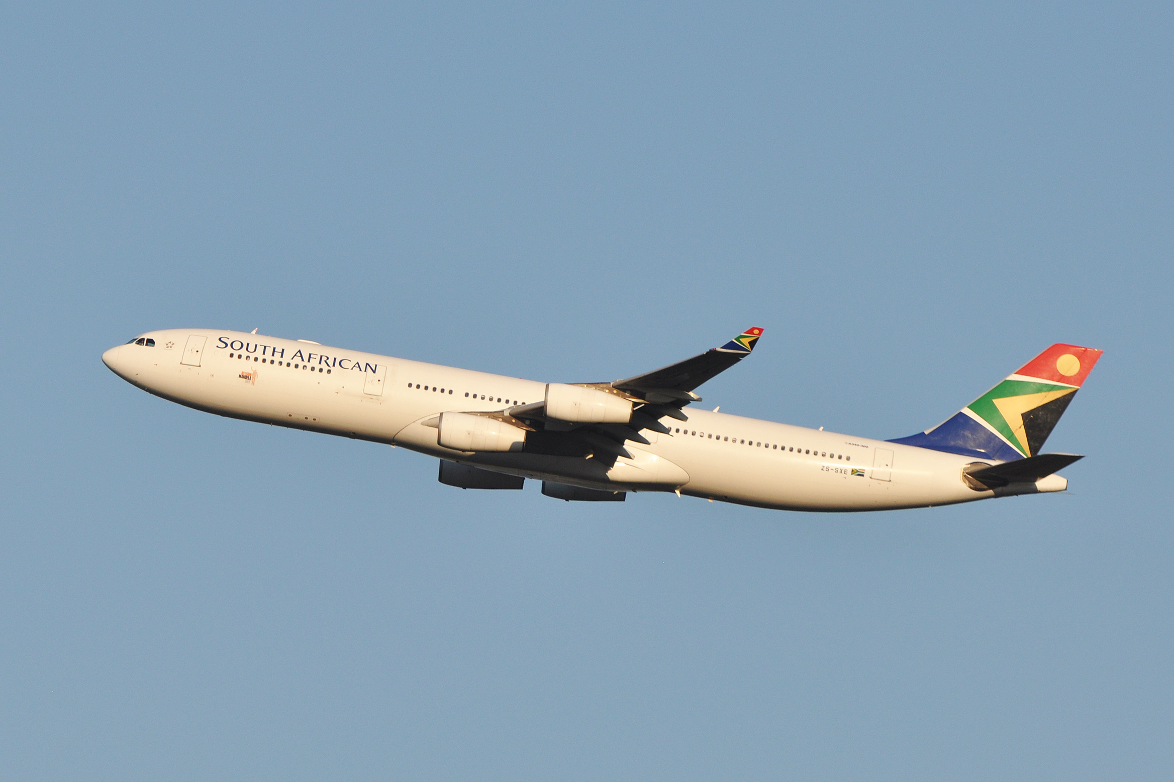 South African Airways Airbus A340-300 ZS-SXE taking off from Washington Dulles International Airport.